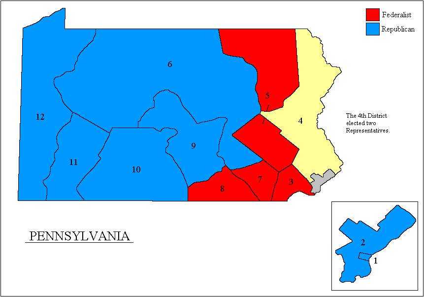 Congressional district map of Pennsylvania for the 5th Congress, 1796